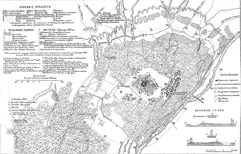 План крепости Гянджи, бывшей в блокаде со 2 декабря 1803 по 3 января 1804 года.